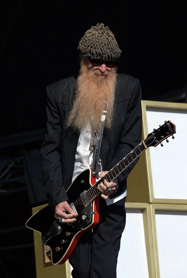 Billy Gibbons of ZZ Top performing in Finland, in PuistoBlues 2010